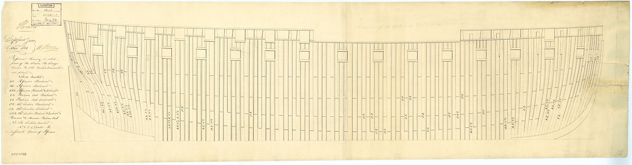 Horatio (1807) Scale: 1:48. Plan showing the framing profile (disposition) for Horatio (1807), a 38-gun Fifth Rate Frigate, after her Large Repair at Deptford Dockyard between 1817 and 1819. The plan records the various frames replaced with foreign timbers or old timbers from other ships. Signed by William Stone [Master Shipwright, Deptford Dockyard, 1813-1830]. HORATIO 1807